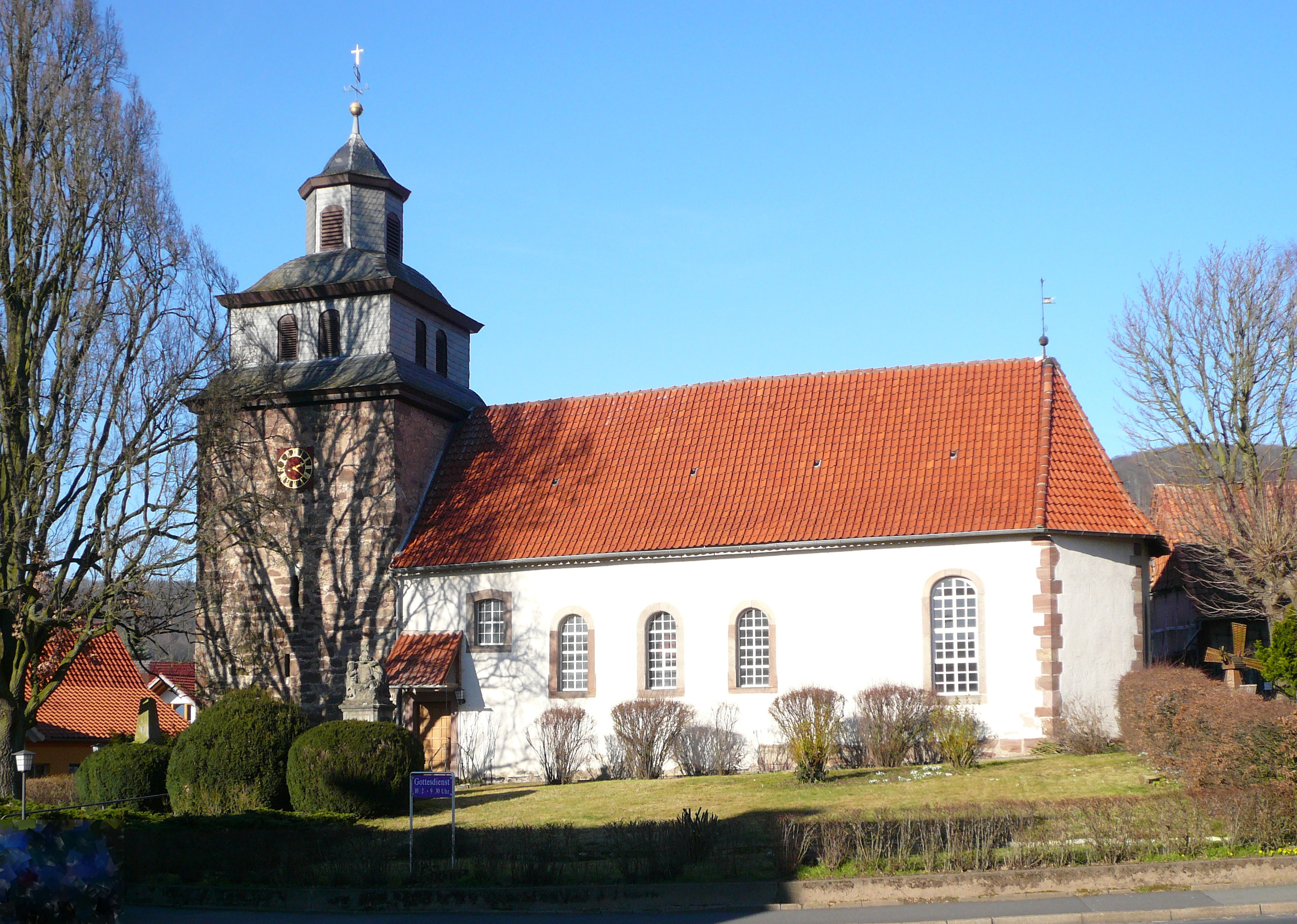 Church St. John the Baptist in Klein Lengden, Gleichen, Lower Saxony, Germany